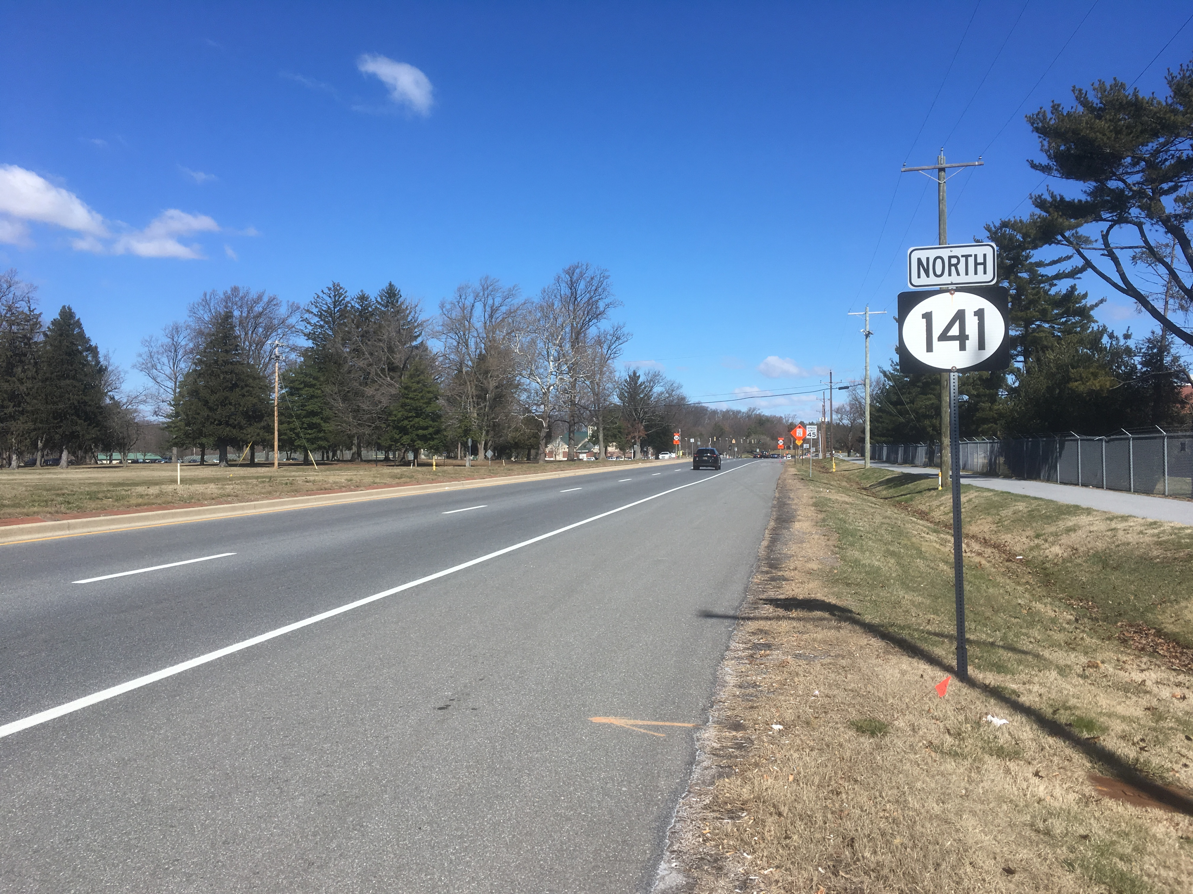 Northbound Delaware Route 141 (Centre Road) past the intersection with Delaware Route 34 (Faulkland Road) west of Wilmington, Delaware